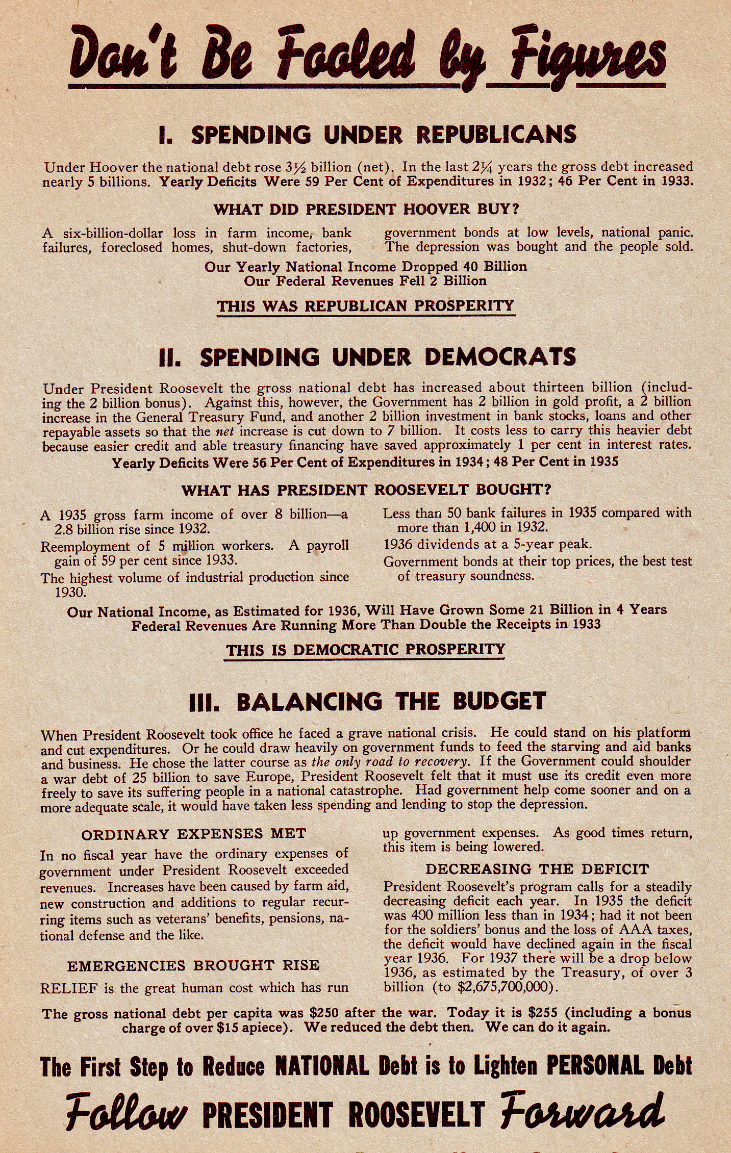 Single page Franklin D. Roosevelt re-election campaign handbill entitled "Don' Be Fooled by Figures" issued by the Democratic National Campaign Committee for the November, 1936 General Election.